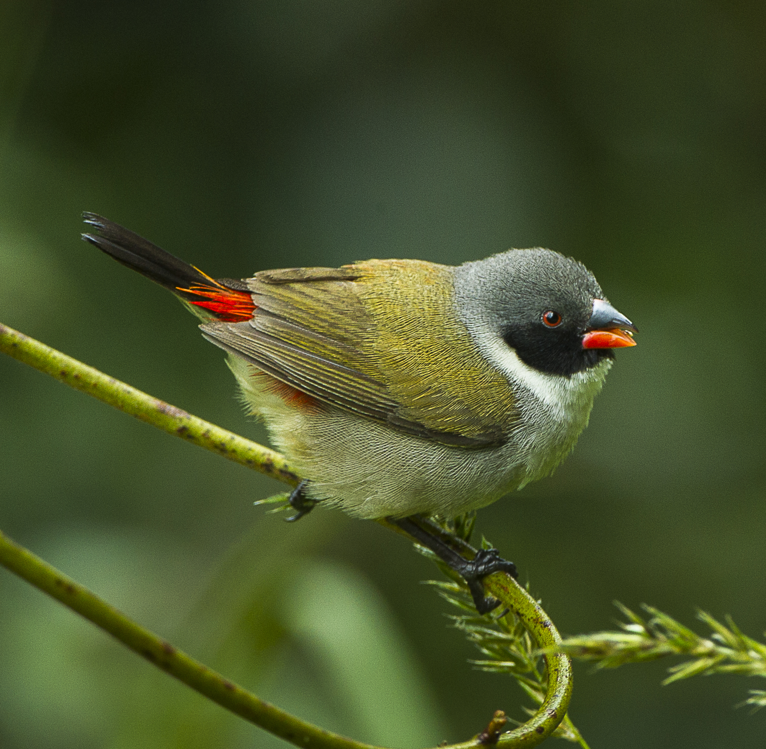 Swee Waxbill - Natal - South Africa_S4E7543